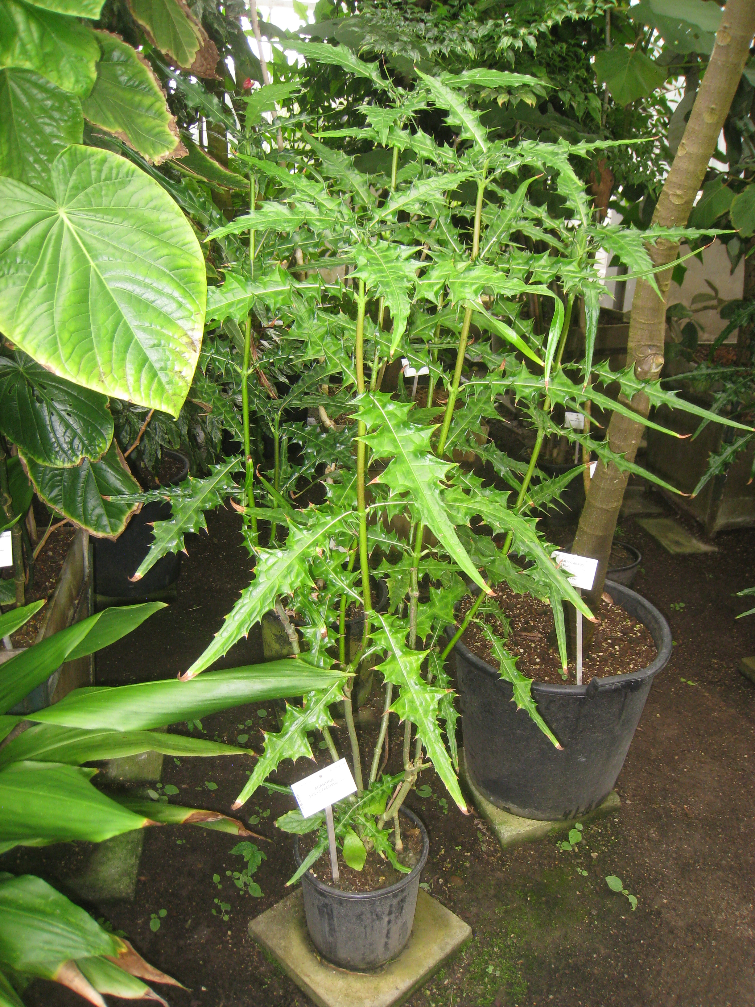 Acanthus polystachyus specimen in the National Botanic Garden of Belgium, Meise, just north of Brussels, Belgium.